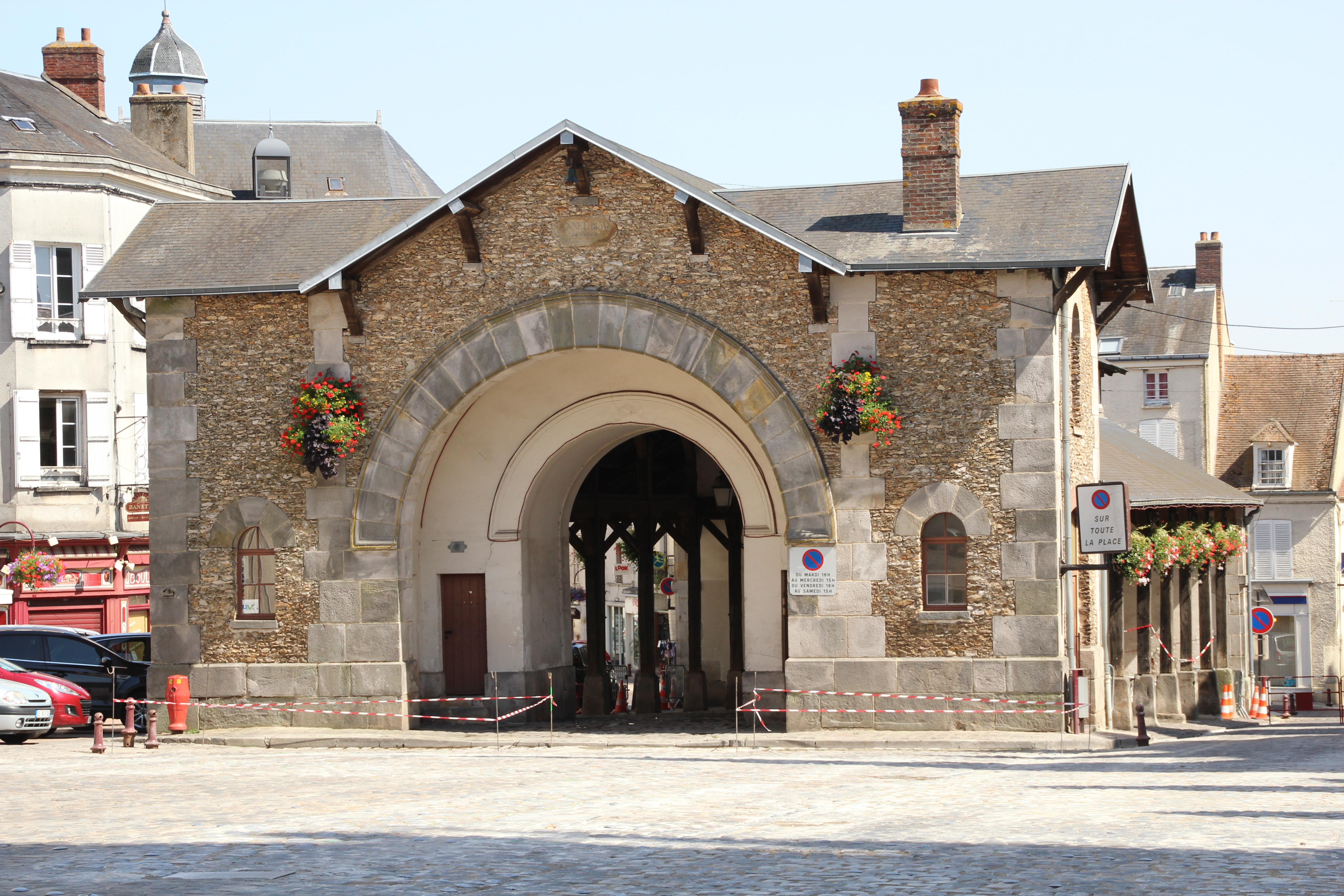 Market hall of Dourdan, France. Object location48° 31′ 45.41″ N, 2° 00′ 44.35″ E This image was uploaded as part of L'Été des villes 2015.